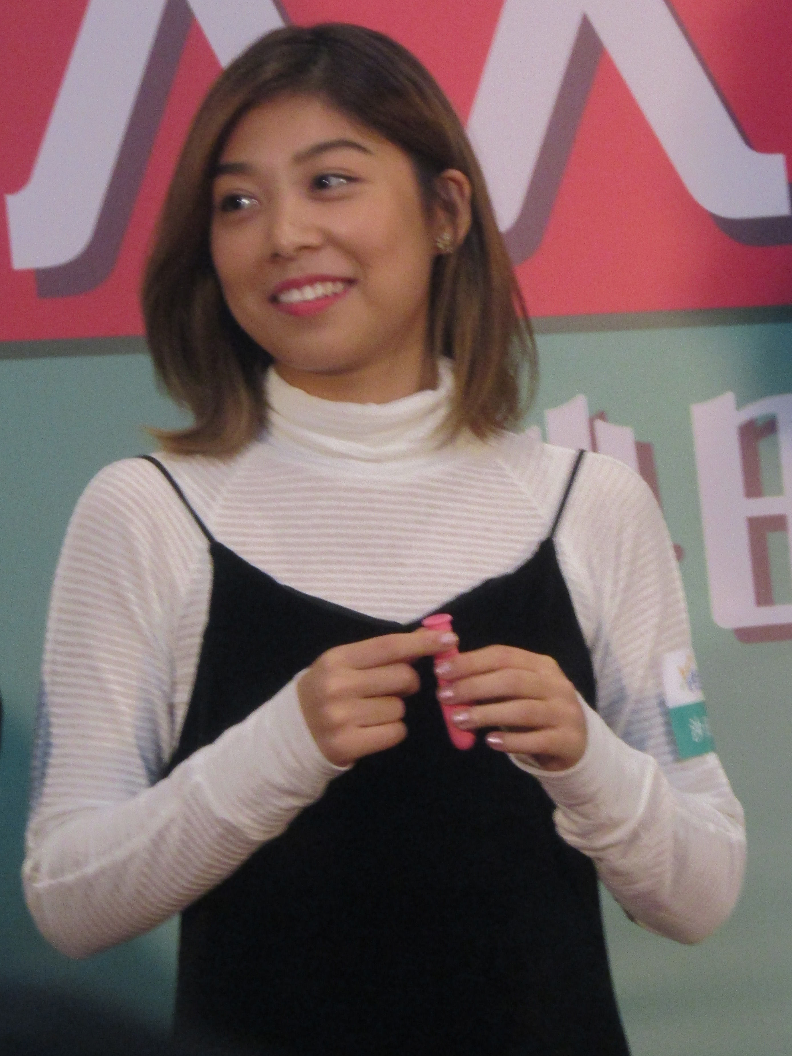 Jaymie Cheung is in Shatin Centre